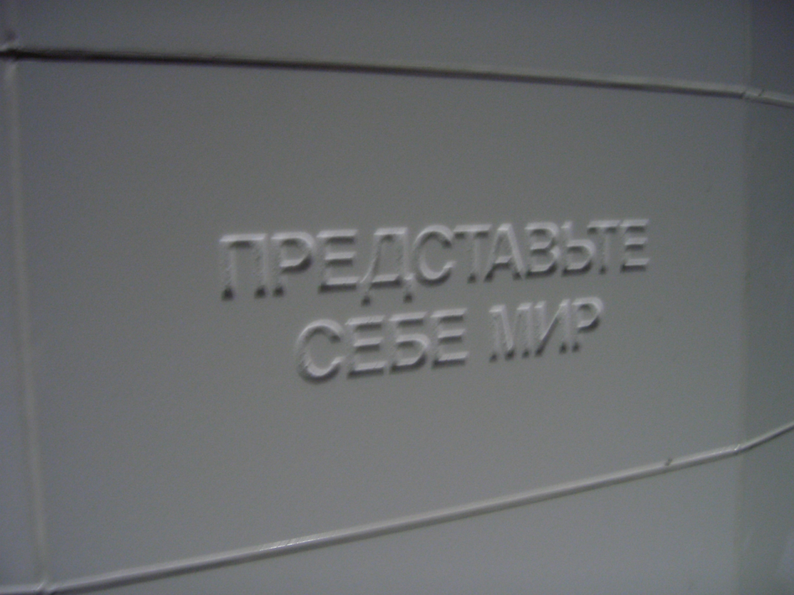 One of 25 languages that the words "Imagine Peace" is written on the Imagine Peace Tower in Iceland